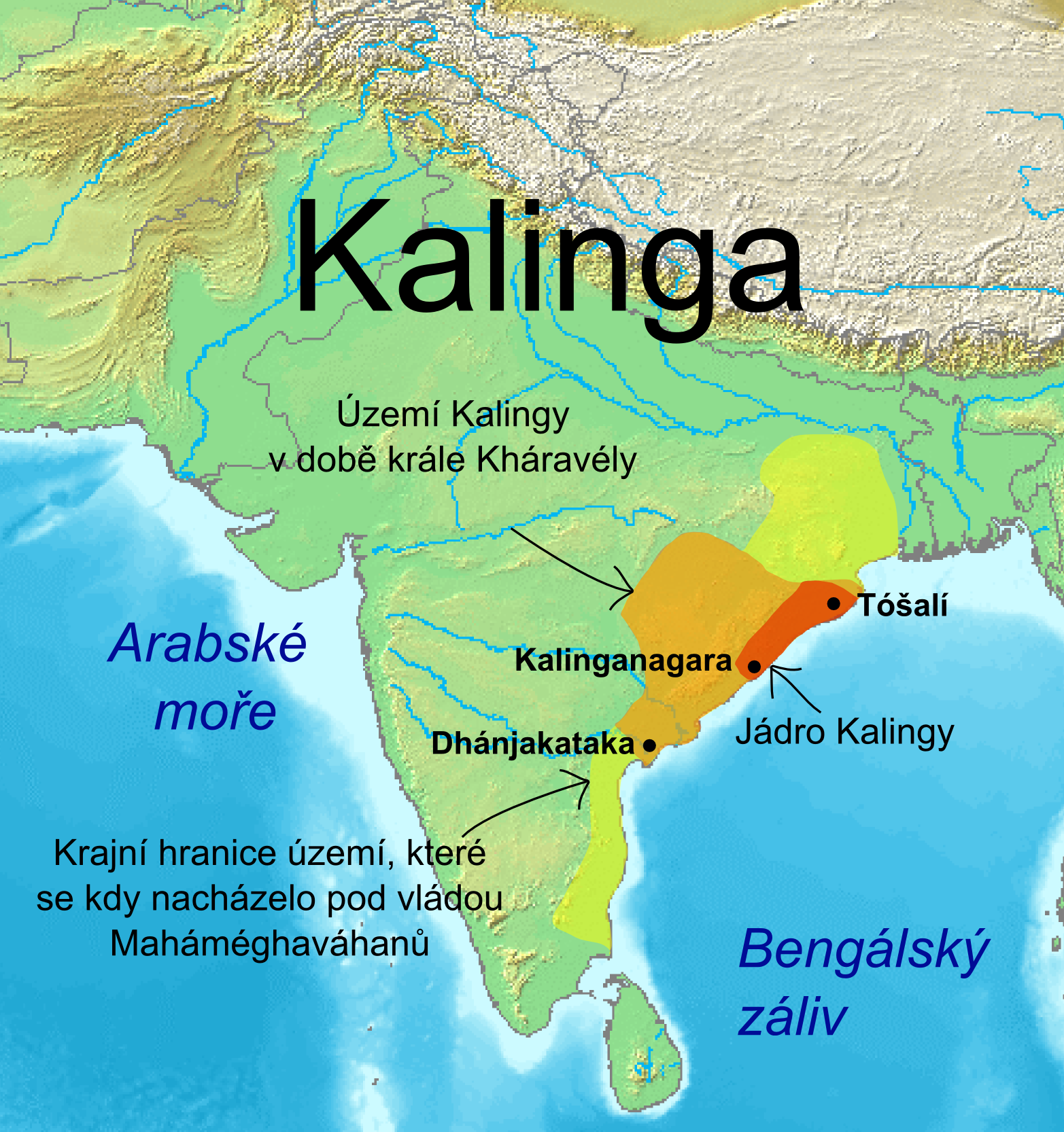 Map of Kalinga